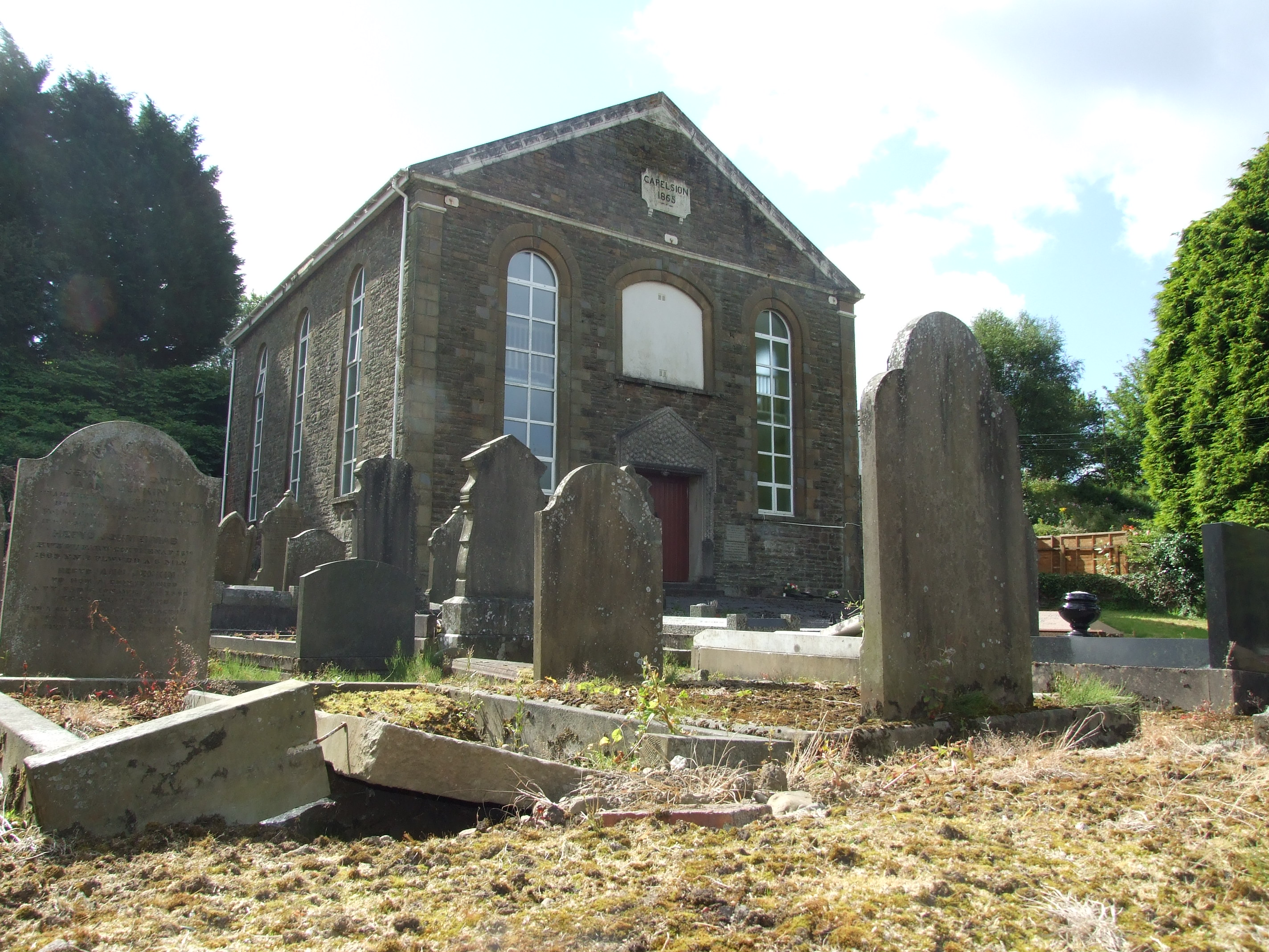 Seion Chapel, Glais, Swansea